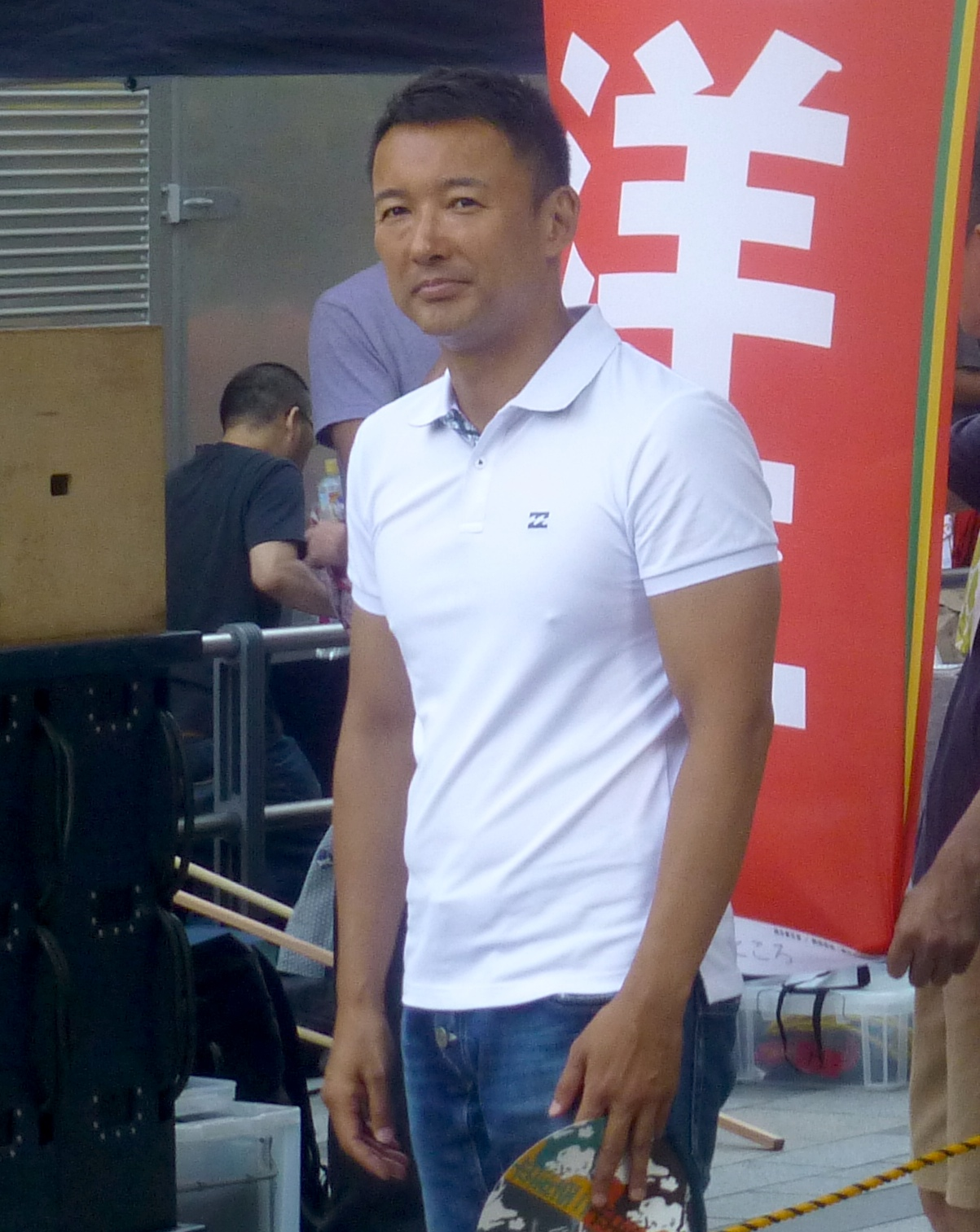 Tarō Yamamoto (山本 太郎 Yamamoto Tarō, born 24 November 1974 in Takarazuka, Hyōgo) is a Japanese politician and former actor.